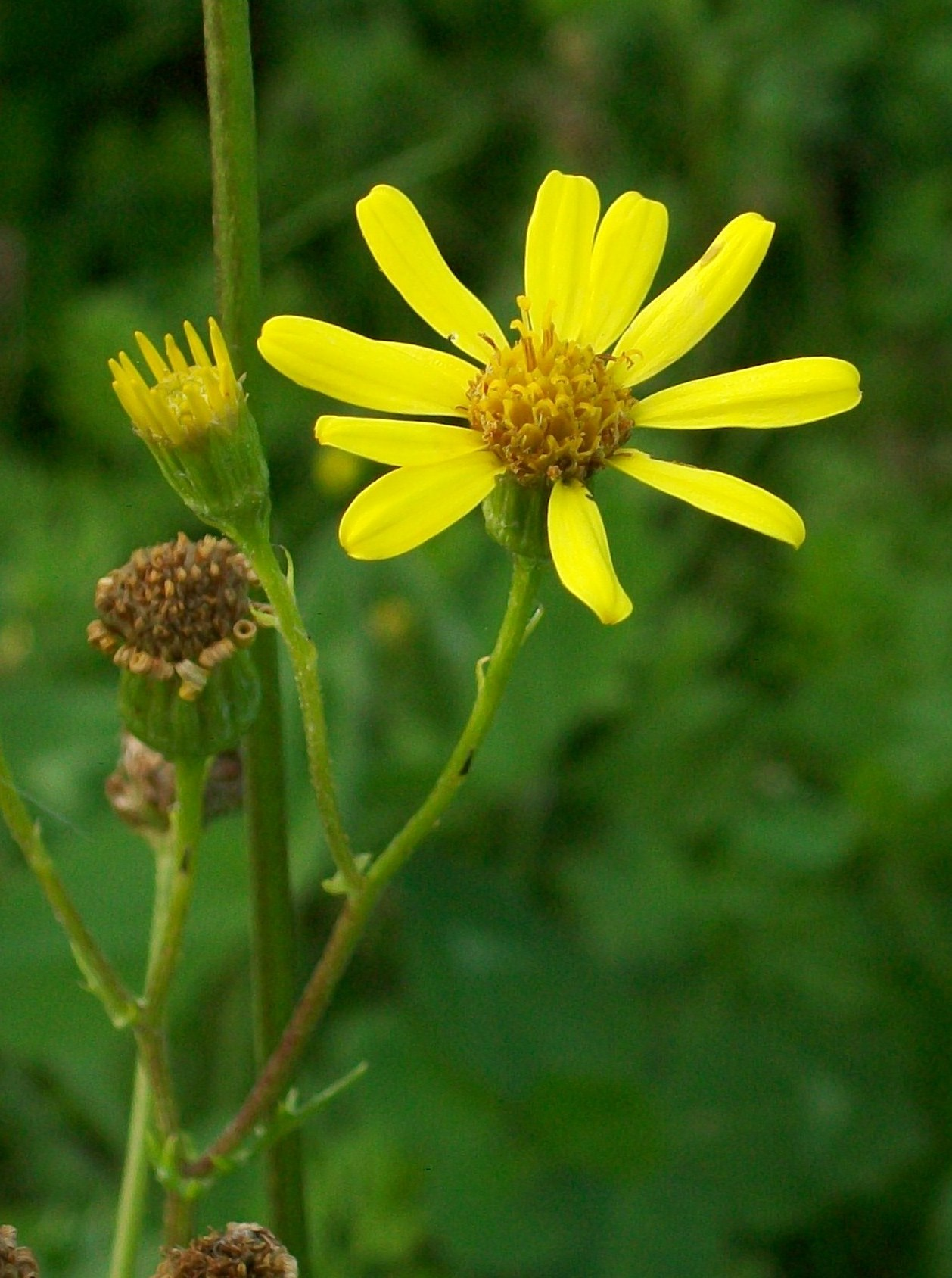 Common Ragwort (Senecio jacobaea syn. Jacobaea vulgaris), Great Ashby District Park, 17 September 2010.